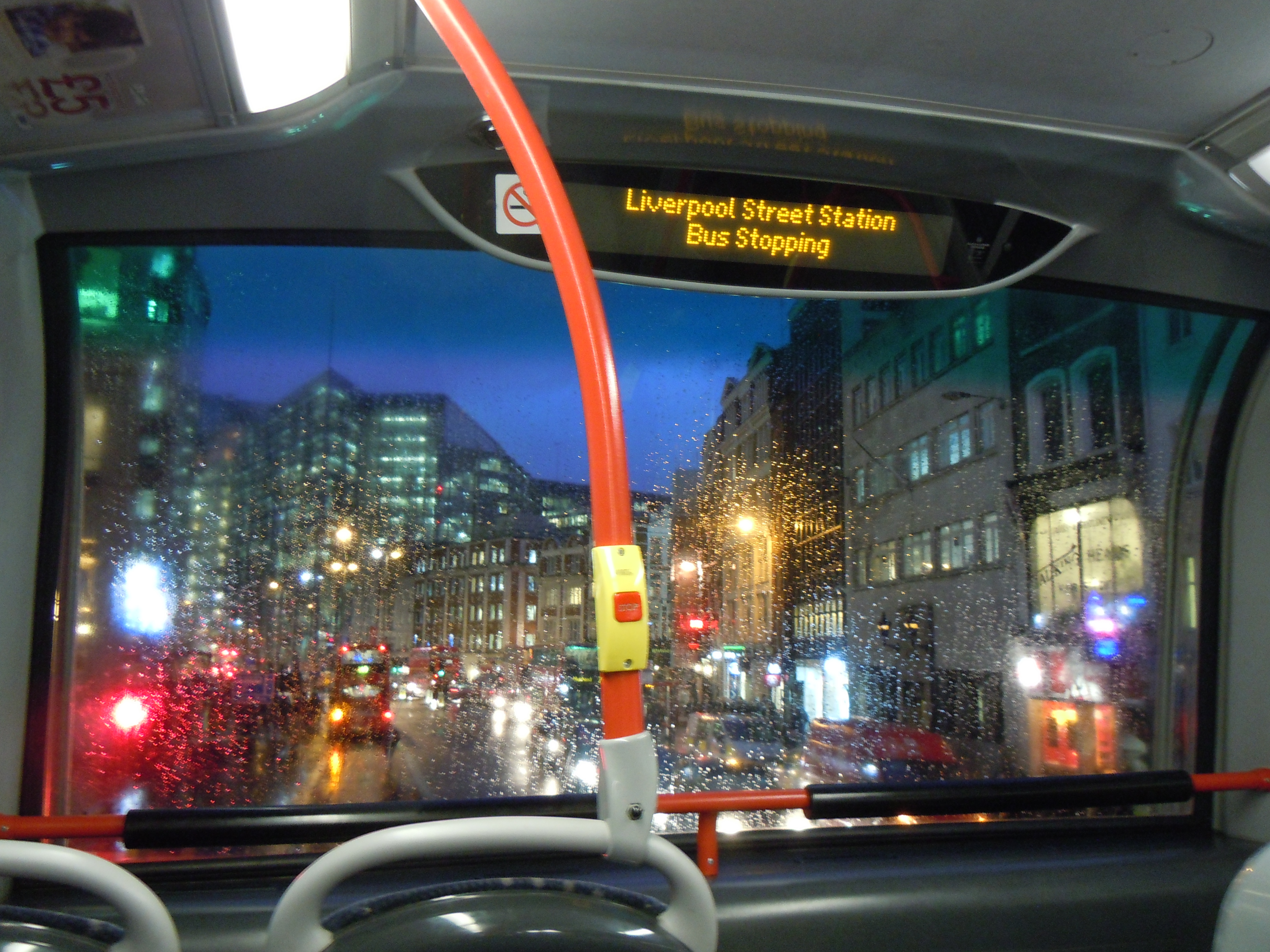 London iBus route indicator, taken on the 344 bus pulling into Liverpool Street.